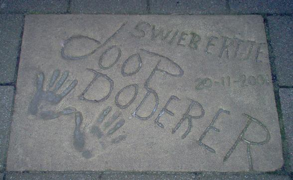 Hand impressions of Joop Doderer in the Walk of Fame, Rotterdam.